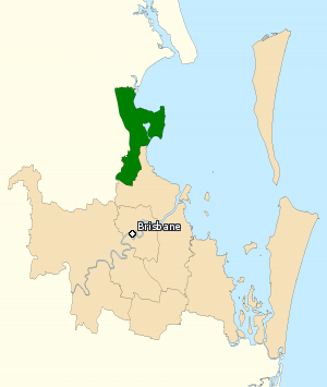 This image incorporates data that is: © Commonwealth of Australia (Australian Electoral Commission) 2009 Division of Petrie 2010